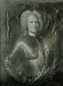 Friedrich von Löwen (1654–1744). Governor of Estland